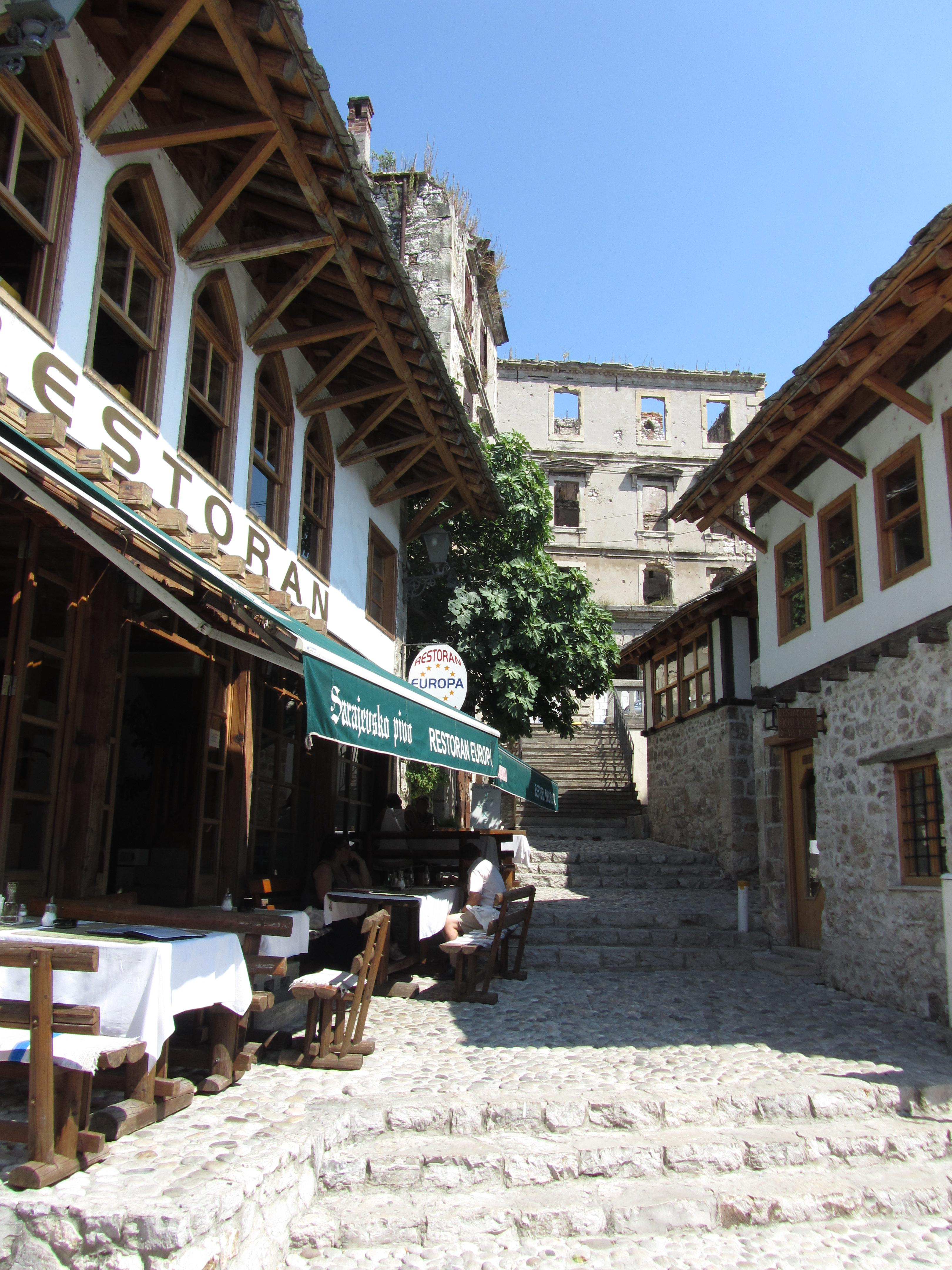 Mostar, Eastern Part of the City